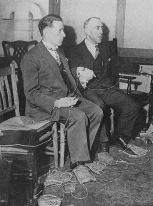 Harry Price (right) investigating the spiritualist medium Rudi Schneider (left).